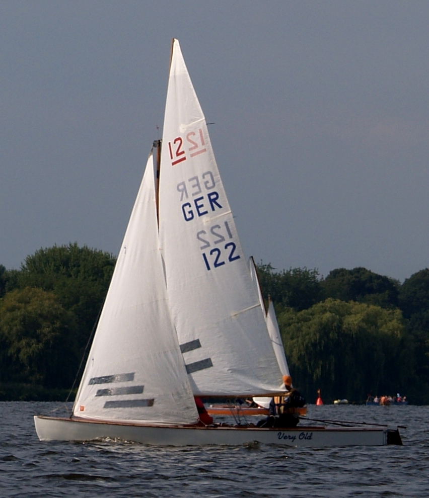 Former Olympic class Sharpie 12 m2